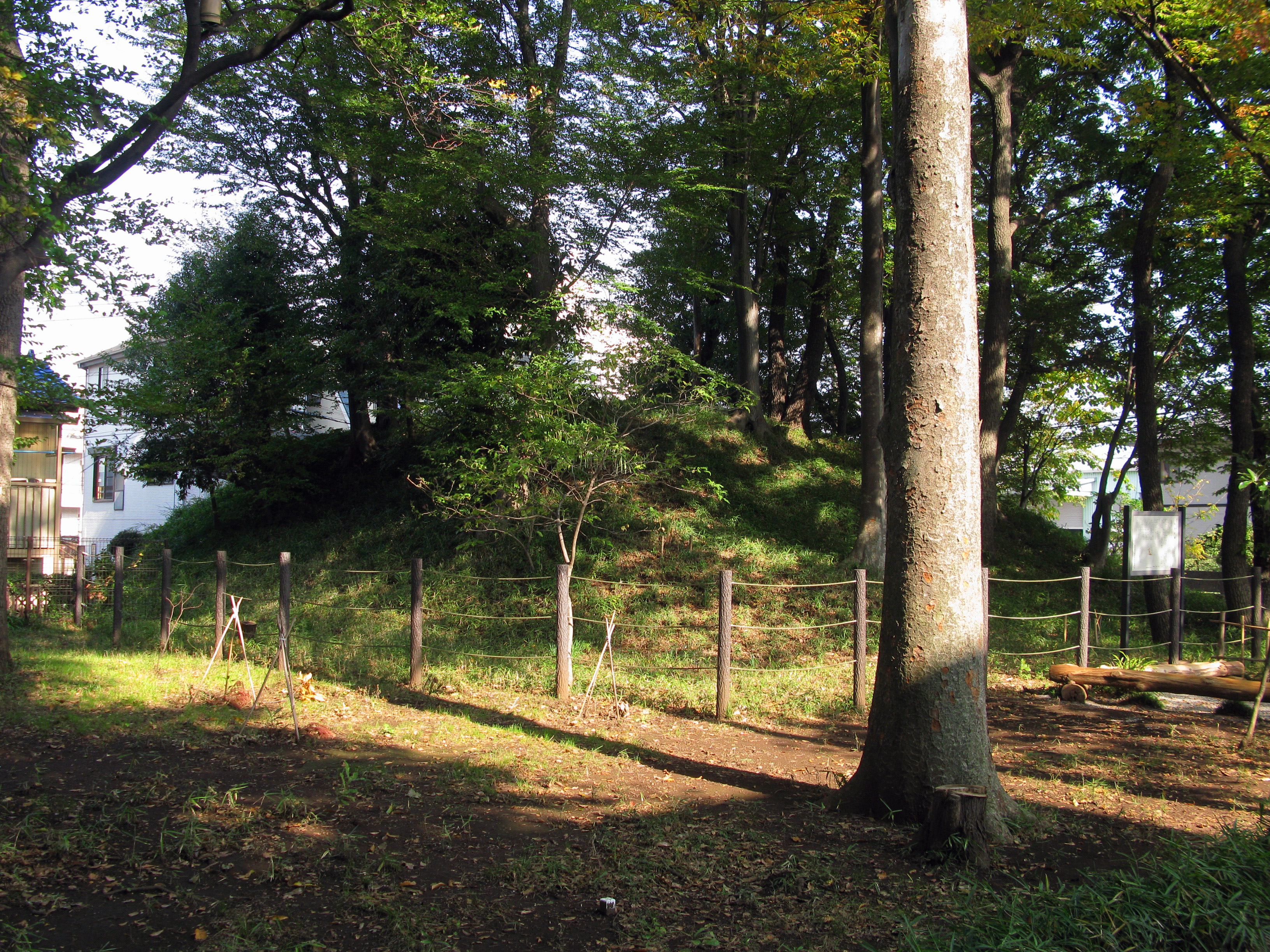 Honmoku Kofun Sakura Ward, Saitama-city, Saitama, Japan.